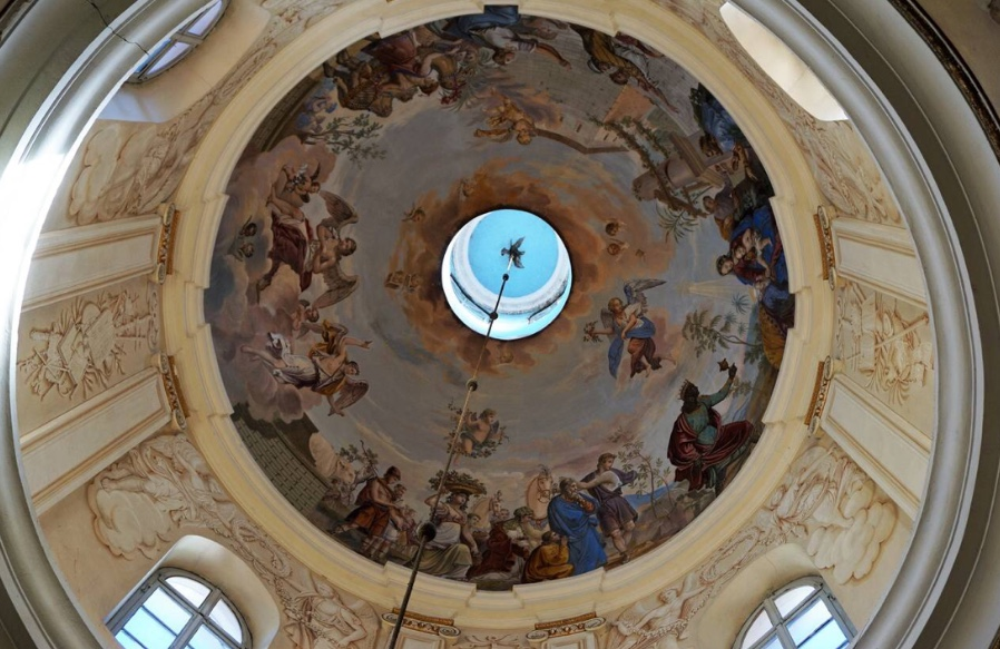 Töpperkapelle Kuppelfresko